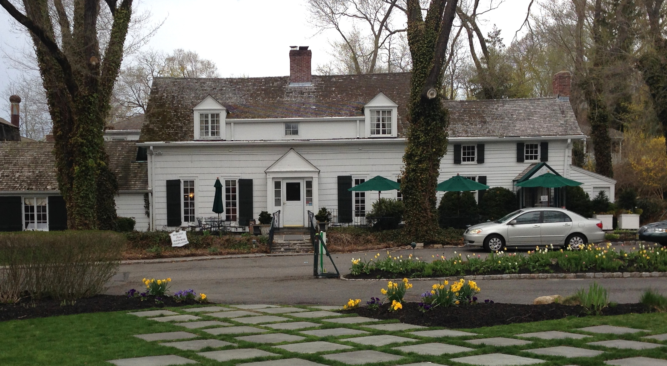 Known as the Old Homestead, the original structure of Mirabelle at Three Village Inn was built in 1751 by Richard Hallock. In about 1835 Jonas Smith, one of the country’s most prominent ship owners, purchased Hallock Homestead for use as a summer house. After his death in 1867 the house had a series of owners until 1929 when Mrs. Frank Melville purchased and renovated it for use as a Women’s Exchange. As people visited the area, she started serving tea, sandwiches, and refreshments. What began as a simple tea room in the 1930’s became in 1939 a large restaurant with rooms to accommodate overnight guests. A fine country inn was born, the Three Village Inn. In January, 2006, Lessings, Inc. took over the Inn, and Dan and Merri Laffitte became the fourth Innkeepers in the history of the Inn. In 2009 Guy and Maria Reuge joined our team and we became Mirabelle at Three Village Inn. Today, the Inn is open year round, serving breakfast, lunch, and dinner and a Sunday brunch. We are available for private functions, both business and pleasure, for groups from 10 to 200 people.